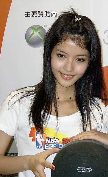 2007 NBA 2K8 Asia Championship in Taiwan: Yummy, a Taiwanese girlband.